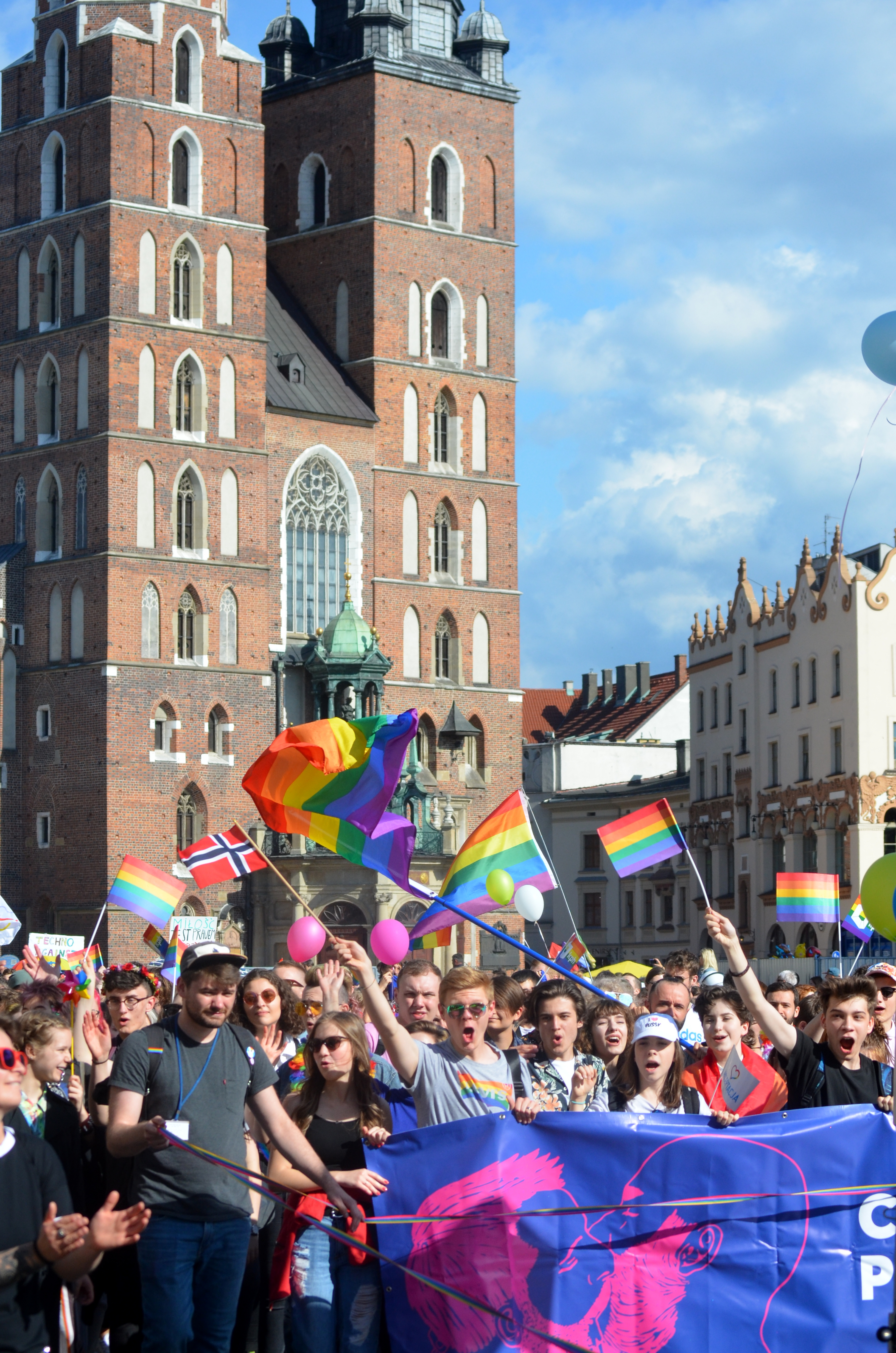 Saint Mary Basilica in Kraków